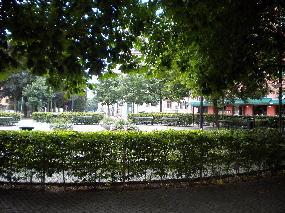 Greta Garbo Place Greta Garbos torg along Katarina bangata (street) east of Götgatan on the Southern Isle (Södermalm)Place: Stockholm, Sweden